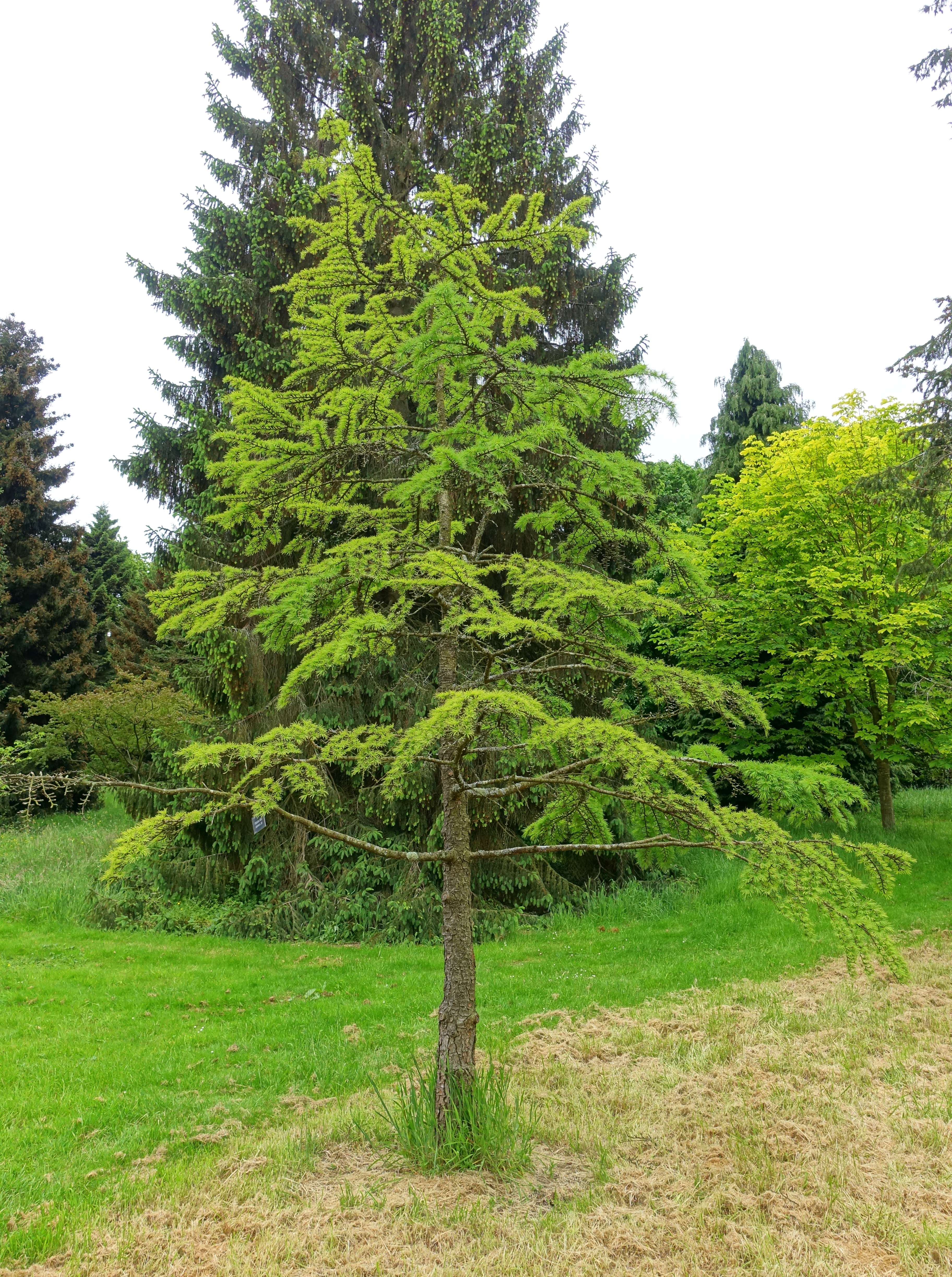 Horticultural specimen in Sir Harold Hillier Gardens - Romsey, Hampshire, England.